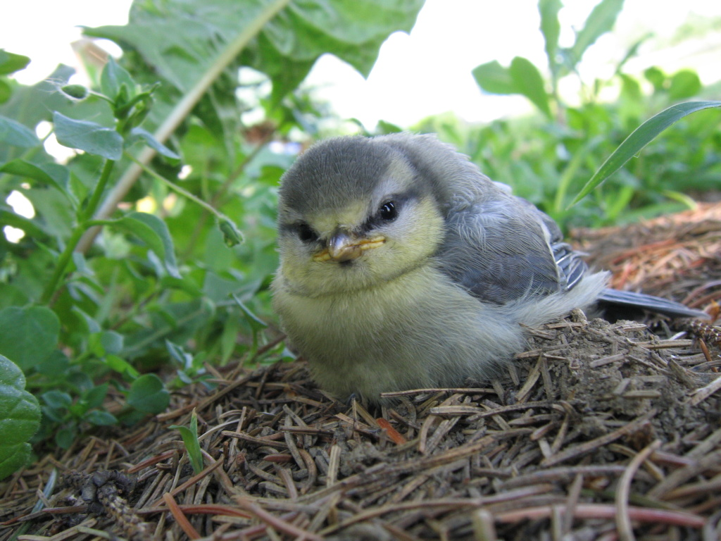 Young Marsh Blue Tit